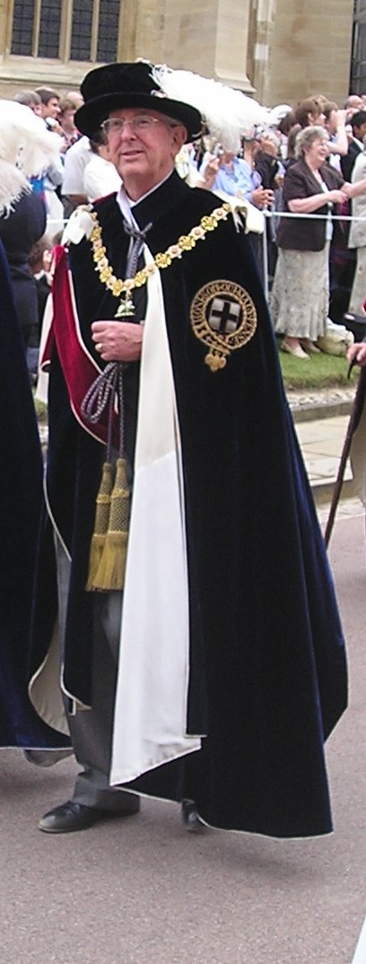 Lord Sainsbury of Preston Candover wearing his robes as a Knight Companion of the Order of the Garter, in procession to St George's Chapel, Windsor Castle for the annual service of the Order of the Garter.